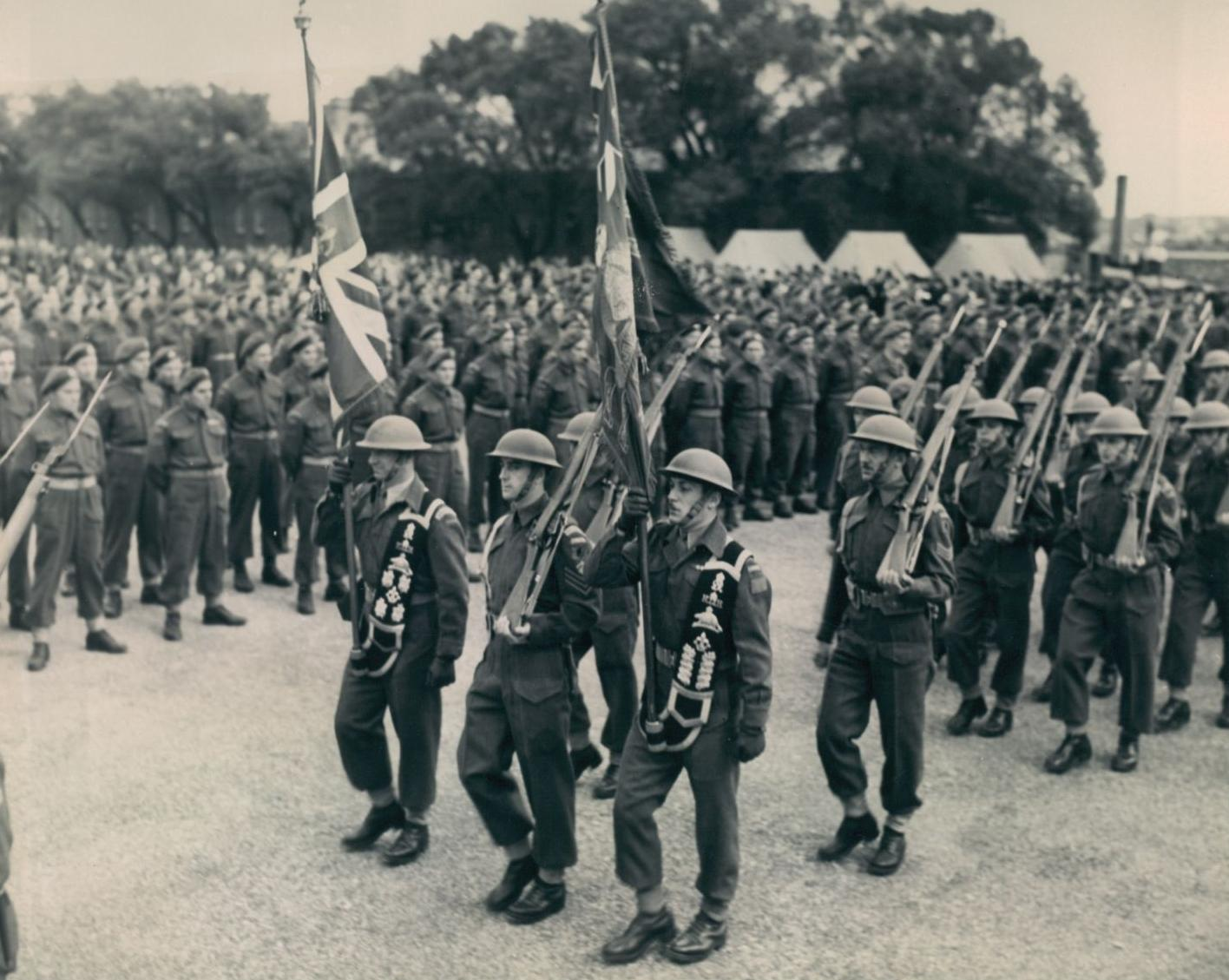 Parade marking the return of the Royal 22e Régiment from Europe to the Citadel in Quebec City.